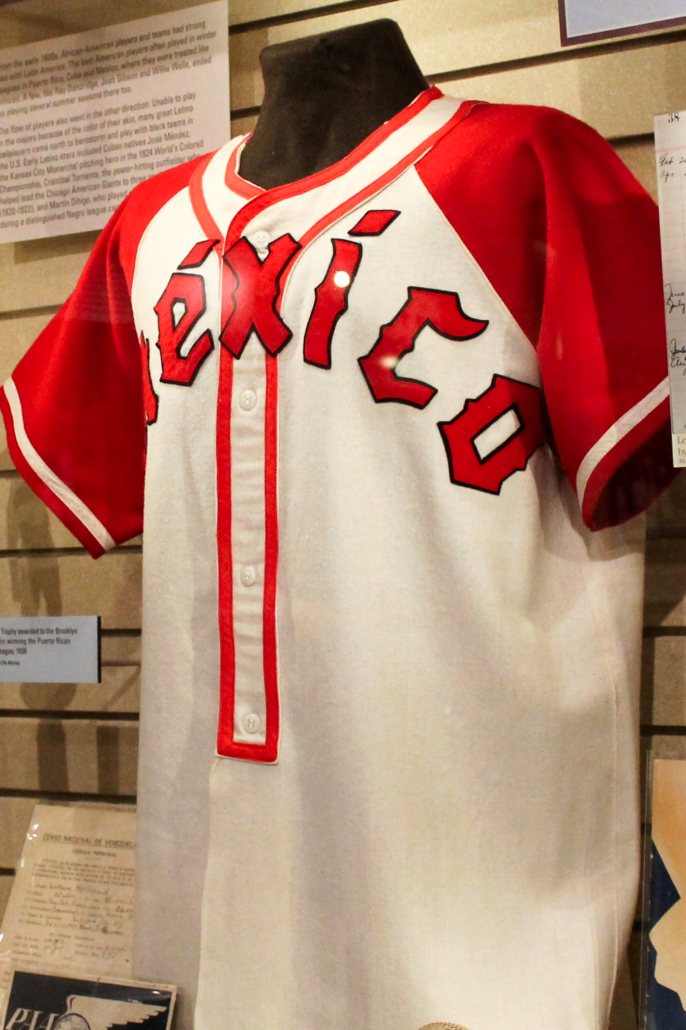 A jersey worn by the Diablos Rojos del México baseball team circa 1945, part of a display at the Baseball Hall of Fame.